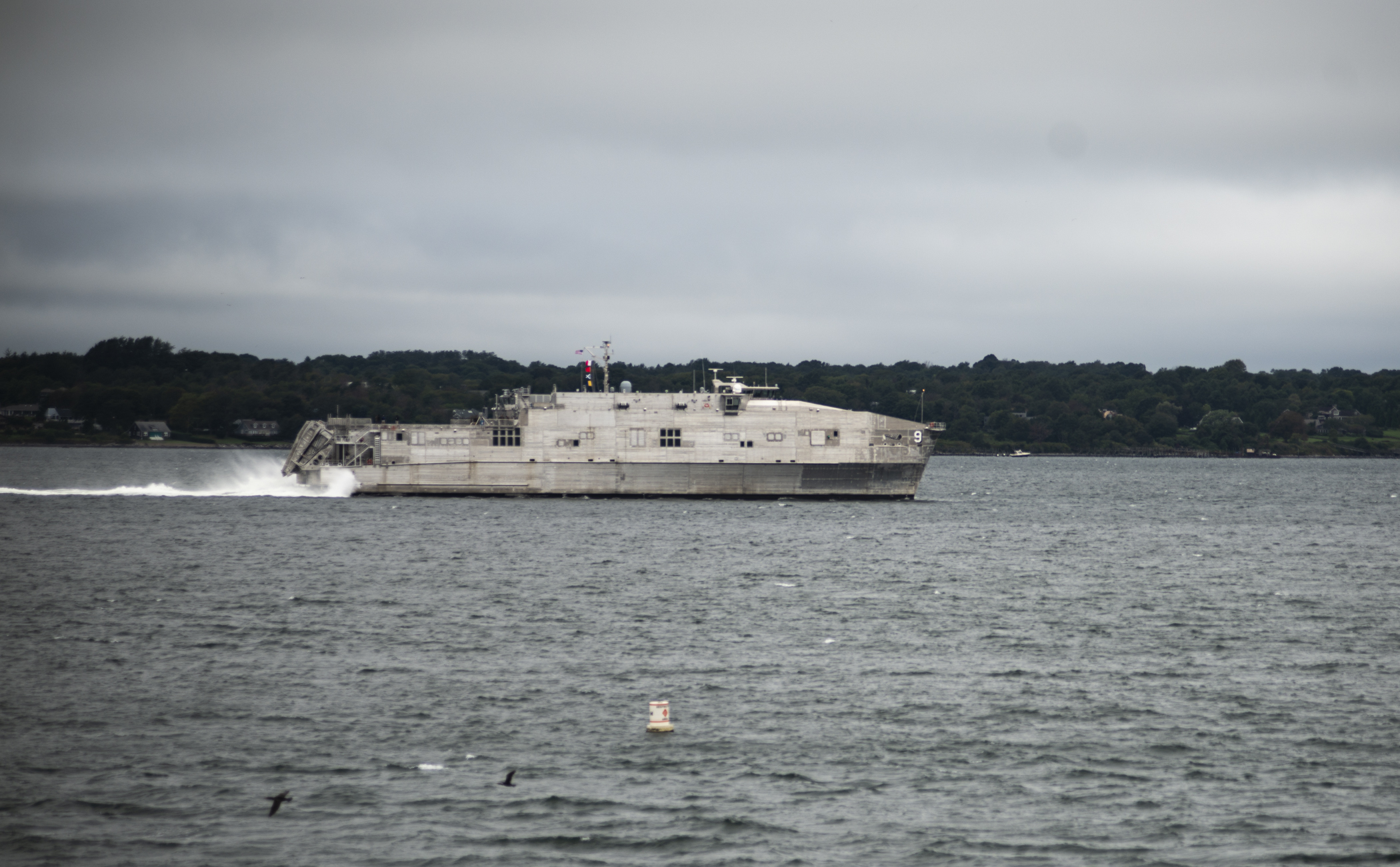 180919-N-LV112-163 NEWPORT, R.I. (Sept. 19, 2018) The expeditionary fast transport USNS City of Bismarck (T-EPF-9) arrives at Naval Station Newport in preparation for the Chief of Naval Operations' 23rd International Seapower Symposium (ISS) at U.S. Naval War College. More than 180 senior officers and civilians from more than 100 countries including many of the senior-most officers from those countries' navies and coast guards, are attending the biennial event Sept. 18-21. This year's theme is "Security, Order, Prosperity," and will feature guest speakers and panel discussions to explore the common security challenges of maritime nations. First held in 1969, ISS has become the largest gathering of maritime leaders in history and provides a forum for senior international leaders to create and solidify solutions to shared challenges and threats in ways that are in the interests of individual nations. (U.S. Navy photo by Mass Communication Specialist 2nd Class Natalia Briggs/released)